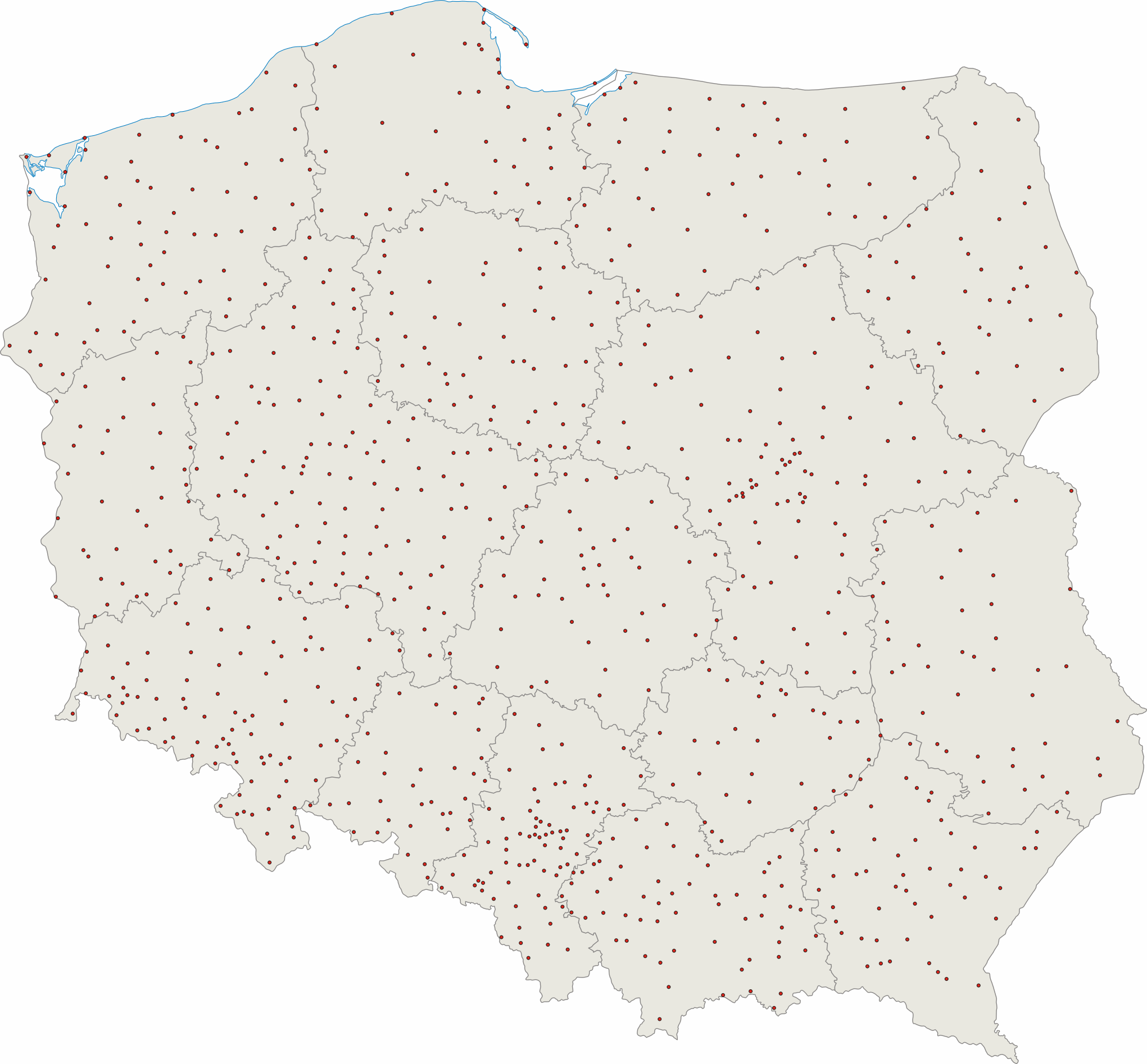 Towns in Poland (as of January 1, 2014)